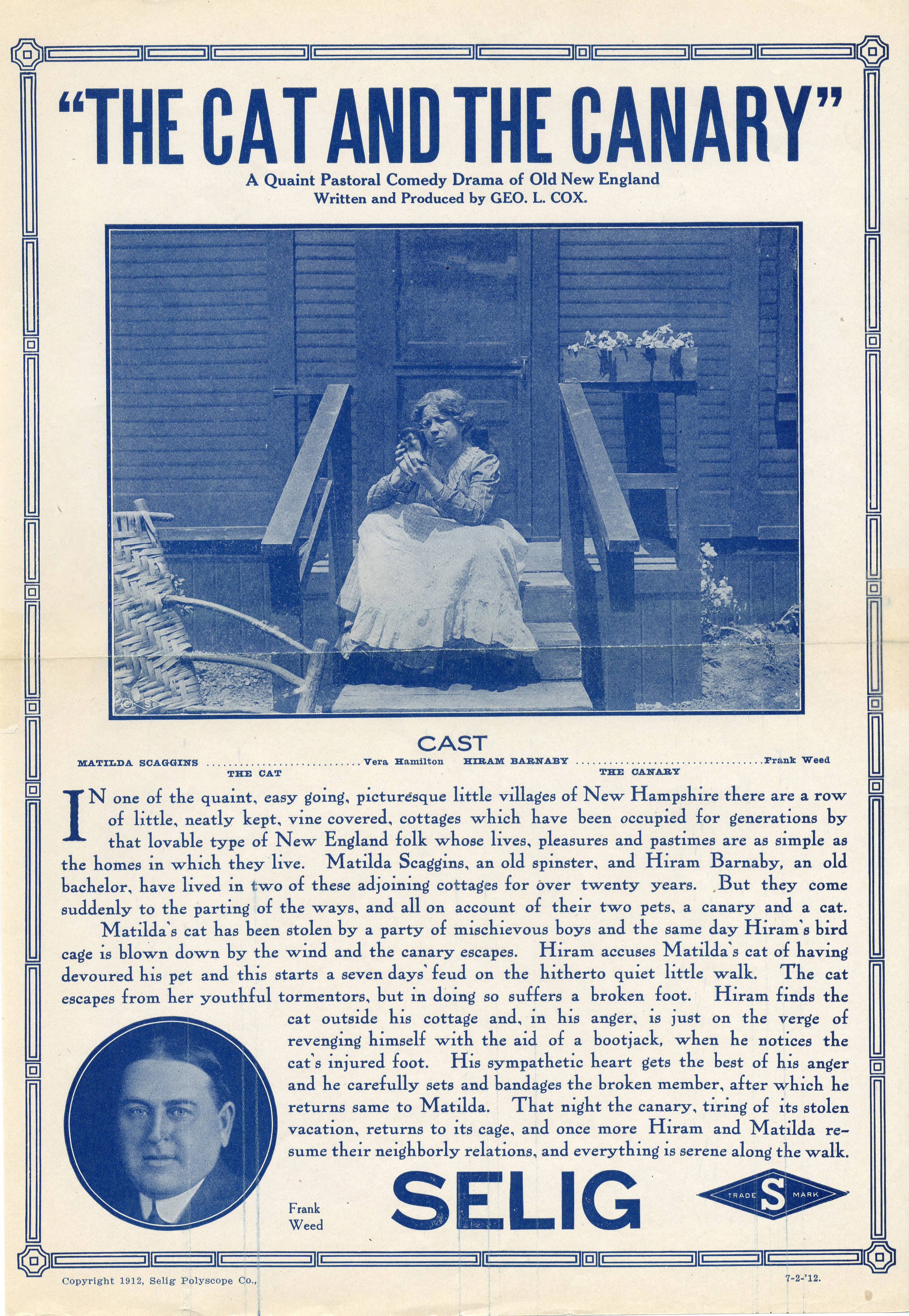 Release flier for THE CAT AND THE CANARY, 1912